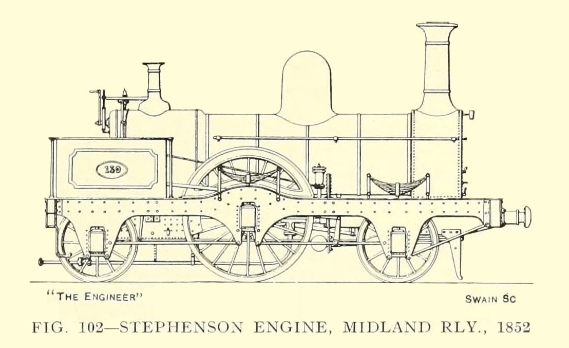 Midland Railway 2-2-2 locomotive No 130, built in 1852 by Robert Stephenson and Company as part of a series of six locomotives for the Midland Railway; line drawing in side view Image is a scan of: Anonymous: “STEPHENSON ENGINE, MIDLAND RLY., 1852.” Fig. 102 in Ernest L. Ahrons, The British Steam Railway Locomotive, 1825–1925, London: The Locomotive Publishing Company Limited, and New York: Spon & Chamberlain, 1927, p. 93. Digitizer: The Internet Archive, 2014 Text Appearing Before Image: 1860-65 93 [...] Text Appearing After Image: “The Engineer” Swain Sc. FIG. 102—STEPHENSON ENGINE, MIDLAND RLY., 1852 [...] 94 The British Steam Railway Locomotive from 1825 to 1925 [...] Six express engines by R. Stephenson and Co., 1852, for the Midland Railway—Fig. 102—had 6ft. 8in. driving wheels and 16in. by 22in. cylinders. The wheel base was 15 ft. 6in., equally divided; total heating surface, 1097 square feet; weight in working order, 28 tons, of which 12 tons 3 cwt. were carried by the driving wheels. The inside frames terminated at the front of the fire-box casing. These engines may be compared with the contemporaneous Midland express engines by Sharp, Stewart & Co., illustrated by Fig. 103. In Stephenson’s engines the horn plates were much deeper and were connected together by tie rods of circular section. In Sharp’s engines shallow horns without tie rods were used. Many of these old single engines were capable of very good work with fairly heavy trains. In 1889 the writer saw Midland engine 133, one of the “Stephensons” just mentioned, on a fast train of eighteen six-wheeled coaches, weighing about 215 tons behind the tender, with which it kept time from Trent to Leicester at a booked speed of 44½ miles per hour. In estimating the value of such performances it must be not be forgotten that the resistance per ton of the old six-wheeled carriage stock was greater than that of modern bogie stock.